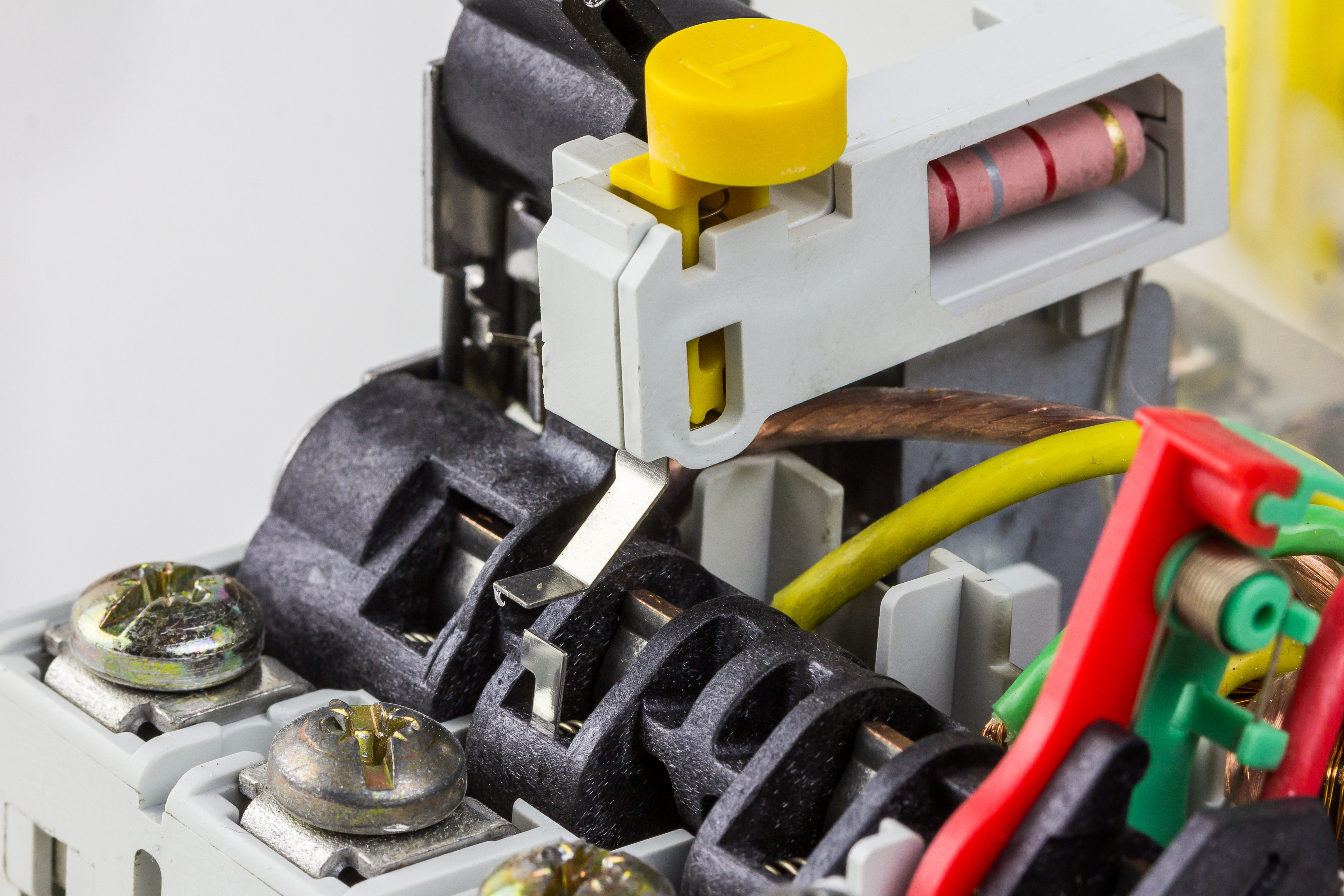 Moeller Xpole PXF-40/4/003-A - case removed